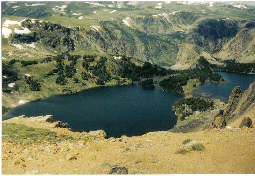 Mountain lake seen from Beartooth Pass [10,947 ft (3,337 m)] — on the Beartooth Highway. Located in the Beartooth Mountains of southern Montana (and northern Wyoming).